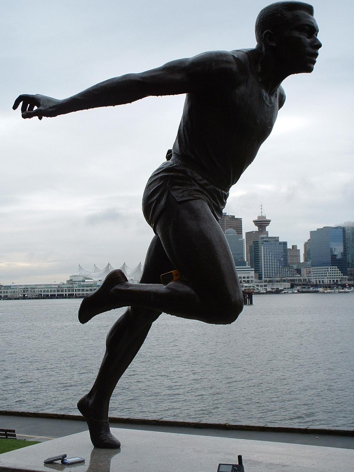 Harry Jerome statue in Stanley Park.